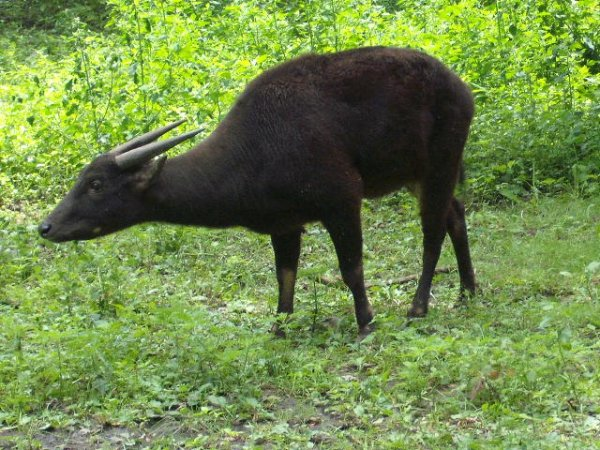 Lowland Anoa (Bubalus depressicornis) in Szeged Zoo